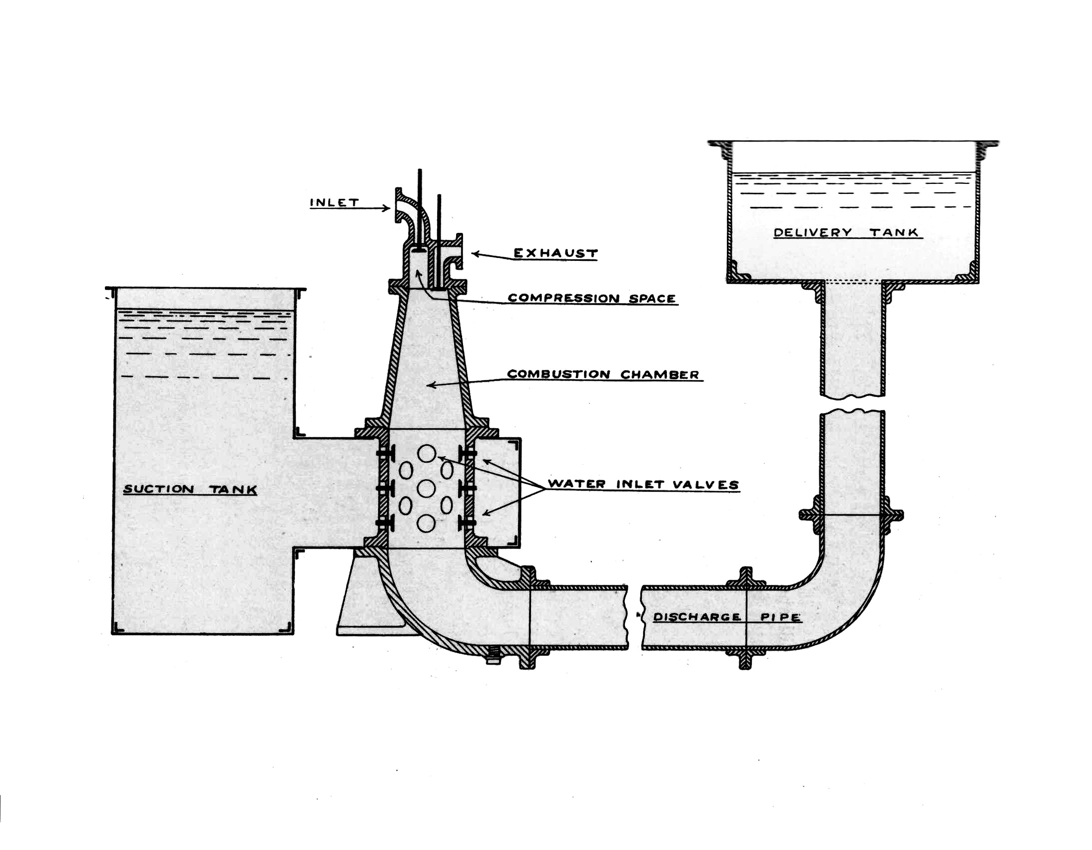 Humphrey Pump (Wimperis, 1915).jpgFig. 35 The Humphrey Pump